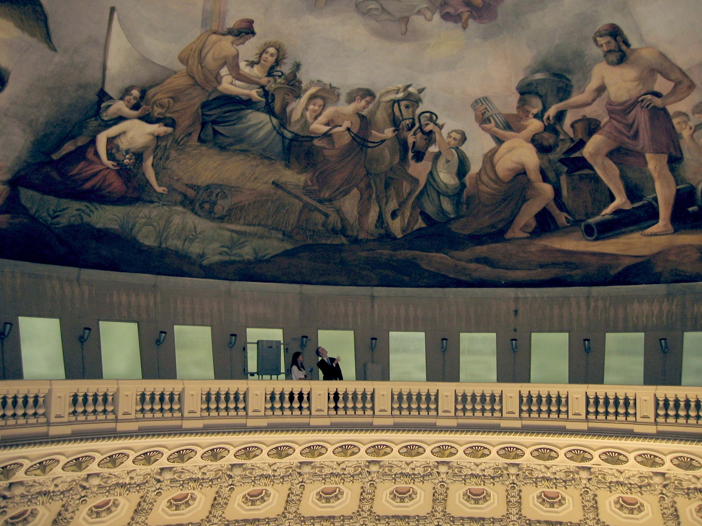 Visitors to the Capitol Dome standing on the balcony immediately below the Apotheosis of Washington, 180 feet above the Rotunda floor